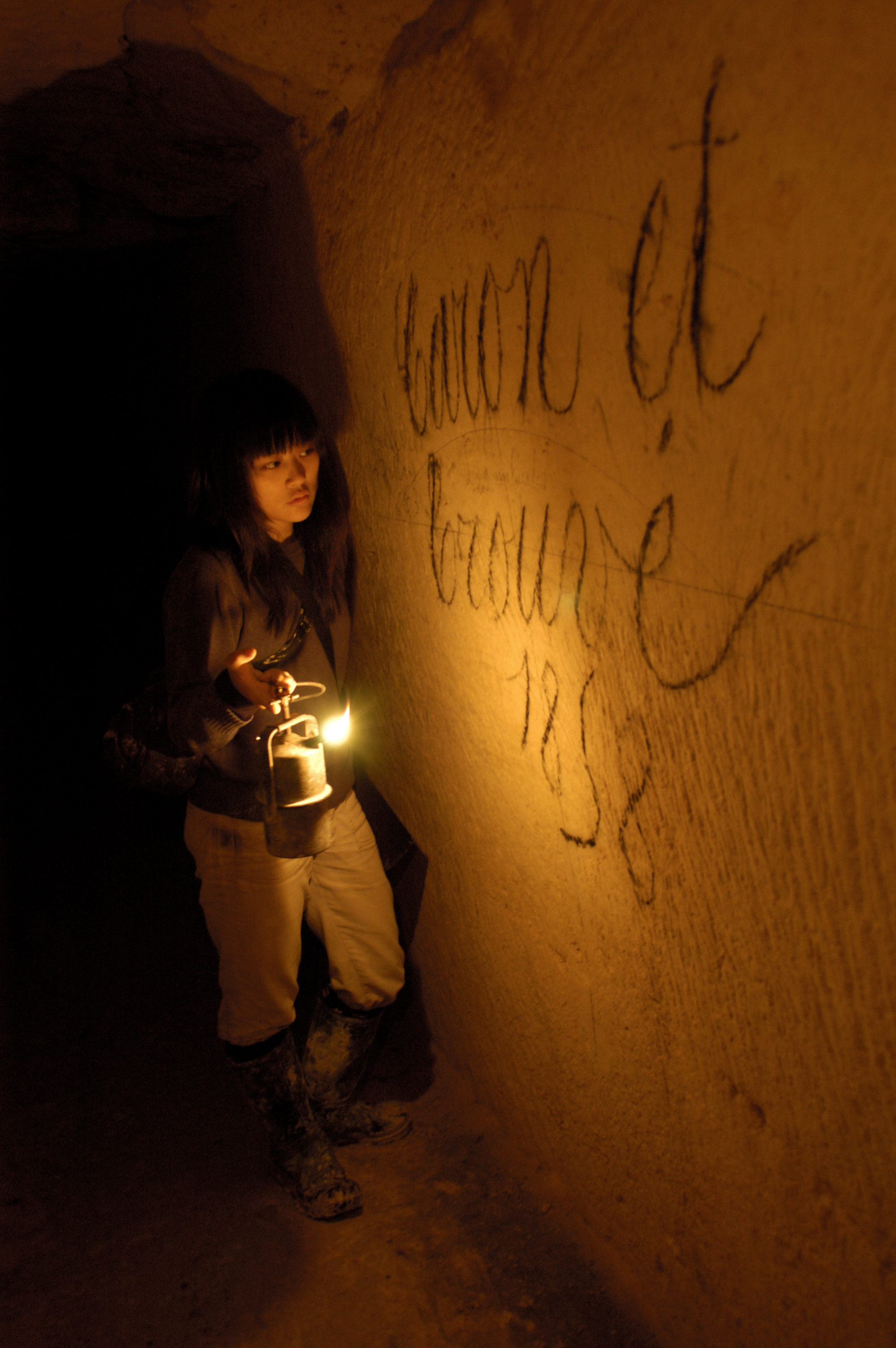 The artist Miru Kim exploring the Paris Catacombs in 2006, looking at an ancient graffiti from 1858.